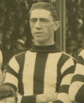 Photograph of Bill Buck in 1922